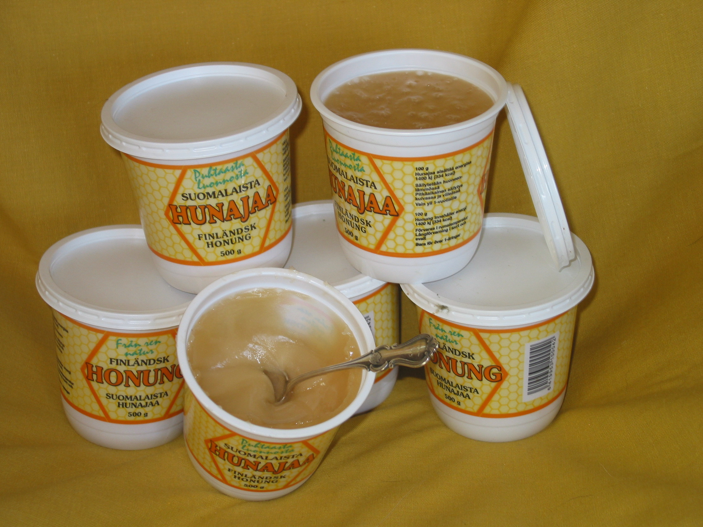 Finnish Honey (the paggage seen more with Finnish language)